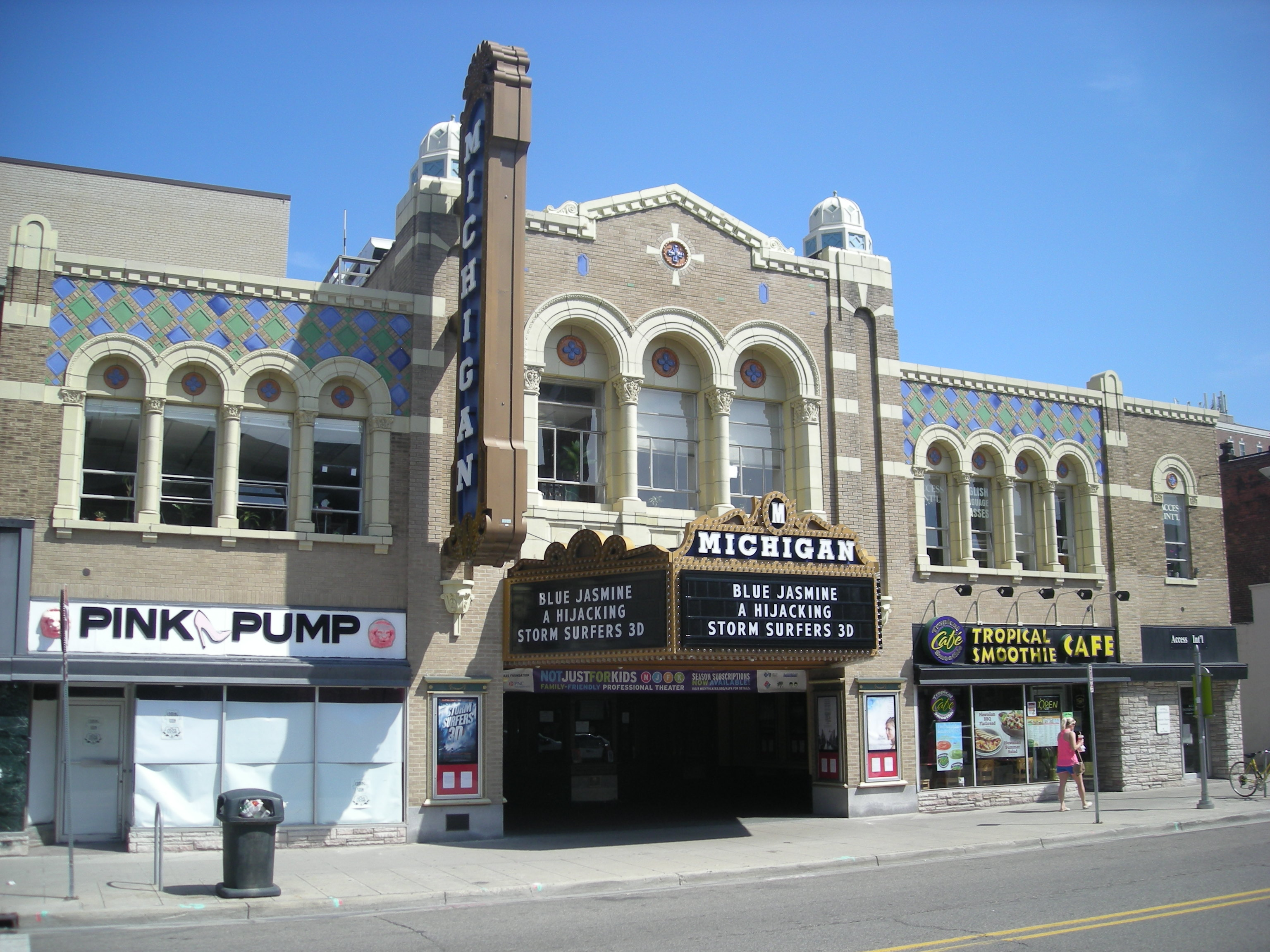 The Michigan Theater in Ann Arbor, Michigan (United States).